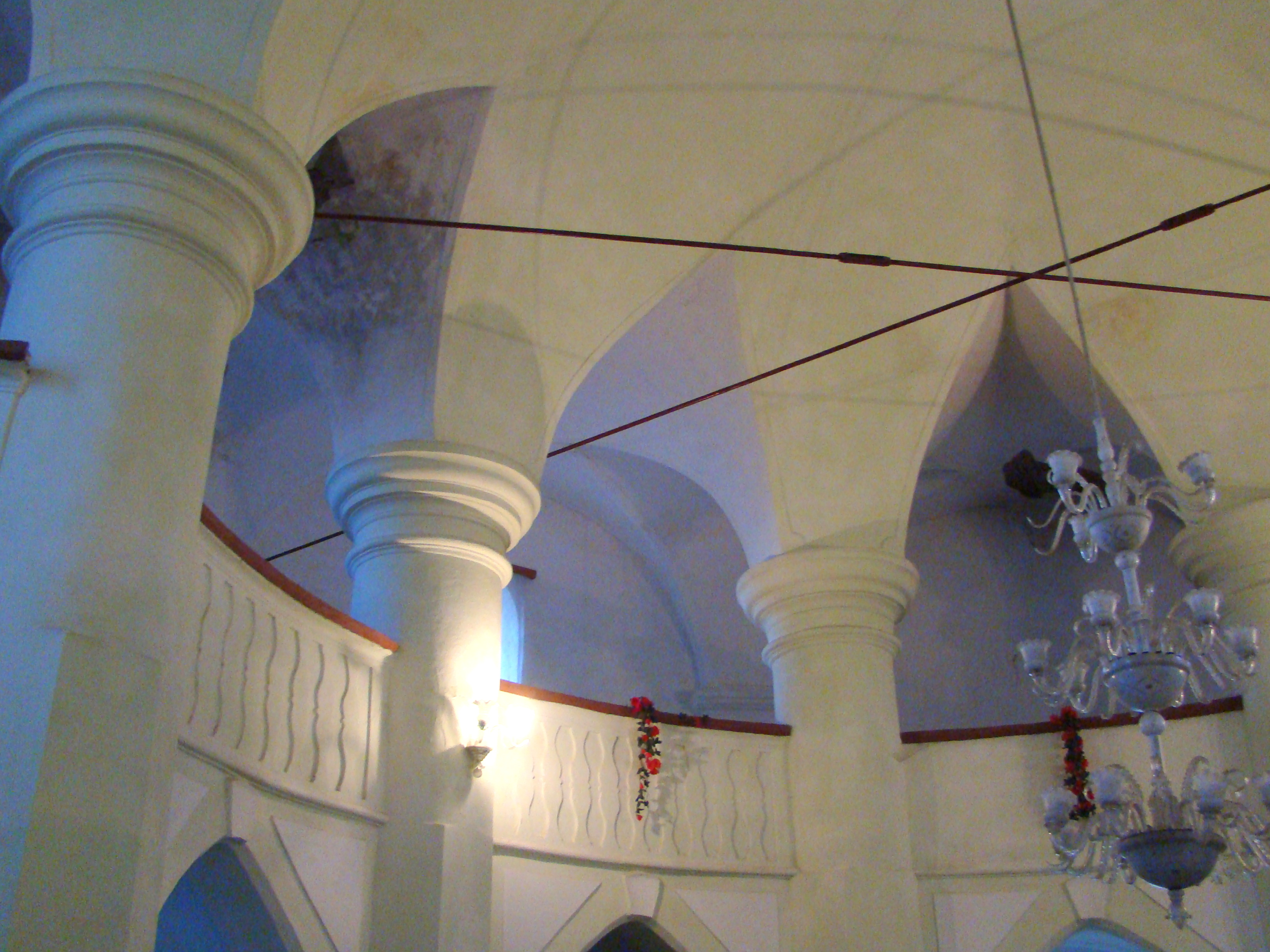 Lutheran church in Monariu, Bistrița-Năsăud county, Romania